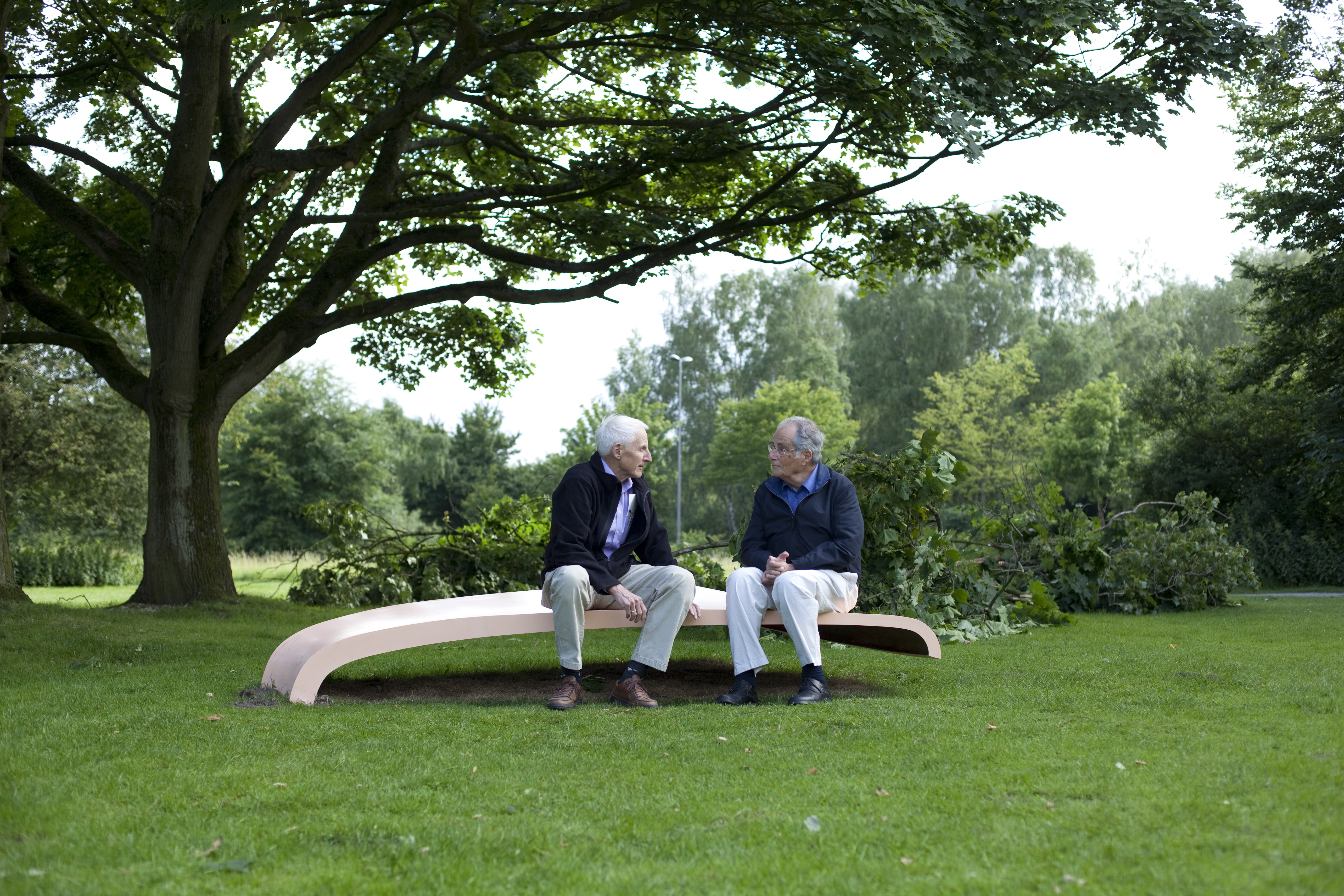 Ute Reeh, Baumzunge (tree tongue), usable sculture, now part of TECTA Collection, Lauenförde, Germany. Dimensions: 220 x 270 x 72 cm. Material: polyester resin